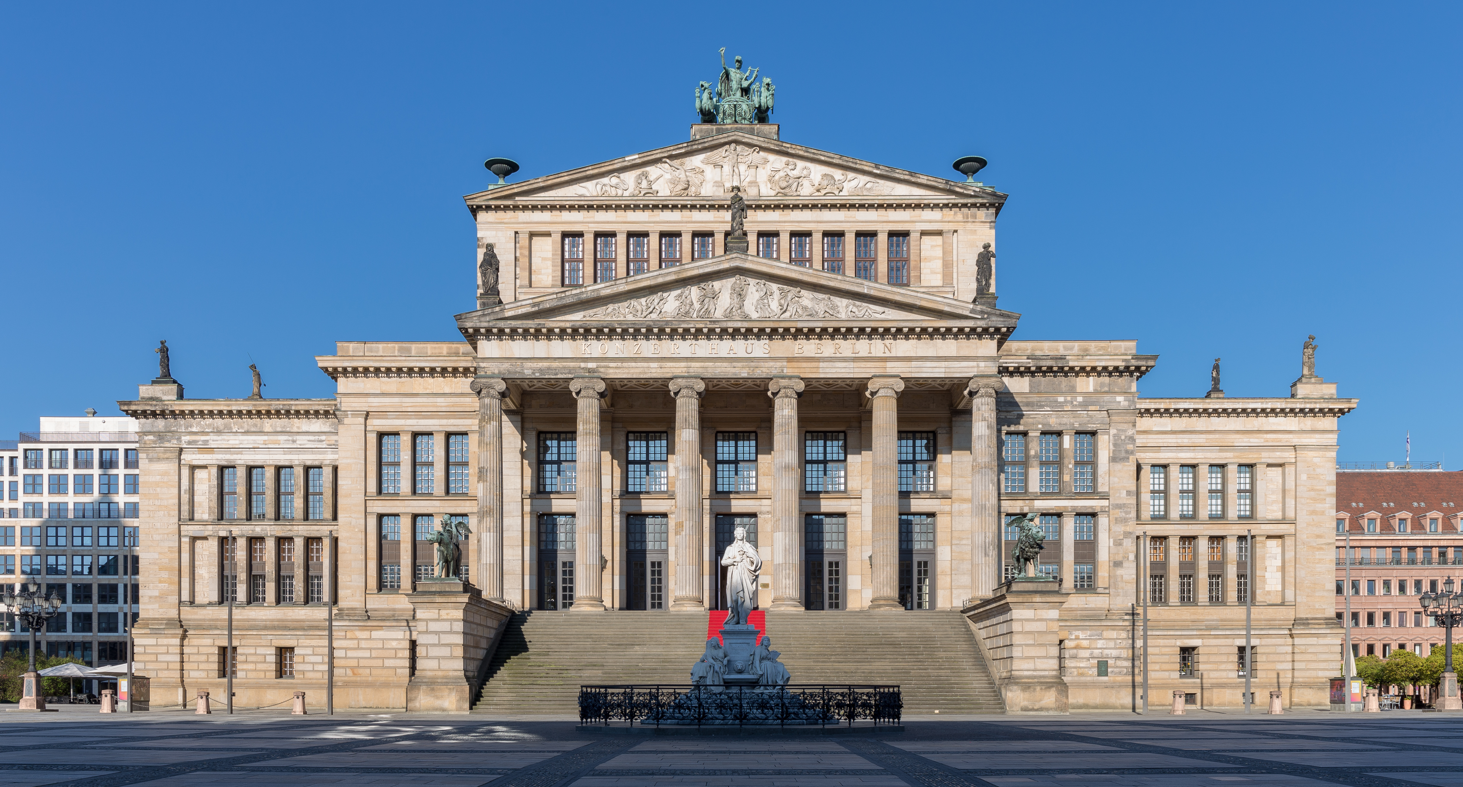 The concert hall is a central building on the Gendarmenmarkt. The classical building is one of the major works of the architect Karl Friedrich Schinkel. It was opened in 1821 as the Royal Playhouse and was from 1919 to 1945 Prussian State Theatre. In 1994, it was named "Konzerthaus Berlin".